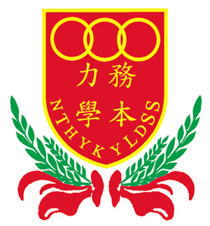 HYKYL